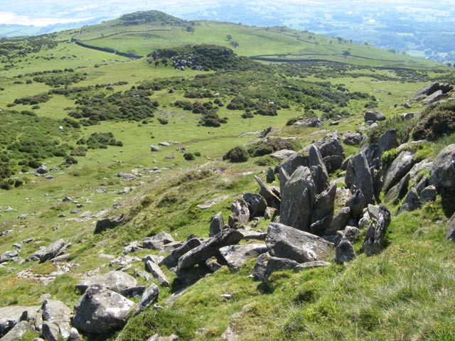 Pointed rocks Deeply-weathered rock outcrops of inclined strata stand like tombstones on the hillside. Views past Caer Bach hillfort include Craig Celynin on the brink of the Conwy Valley and the river far below.